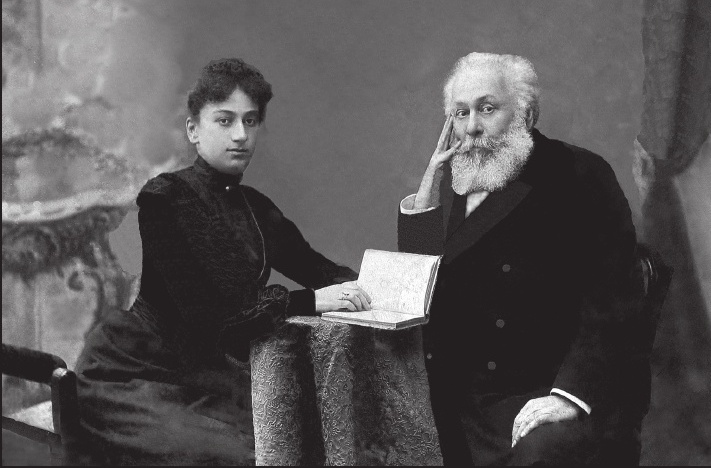 Akaki Tsereteli and his niece Aneta Dadeshkeliani